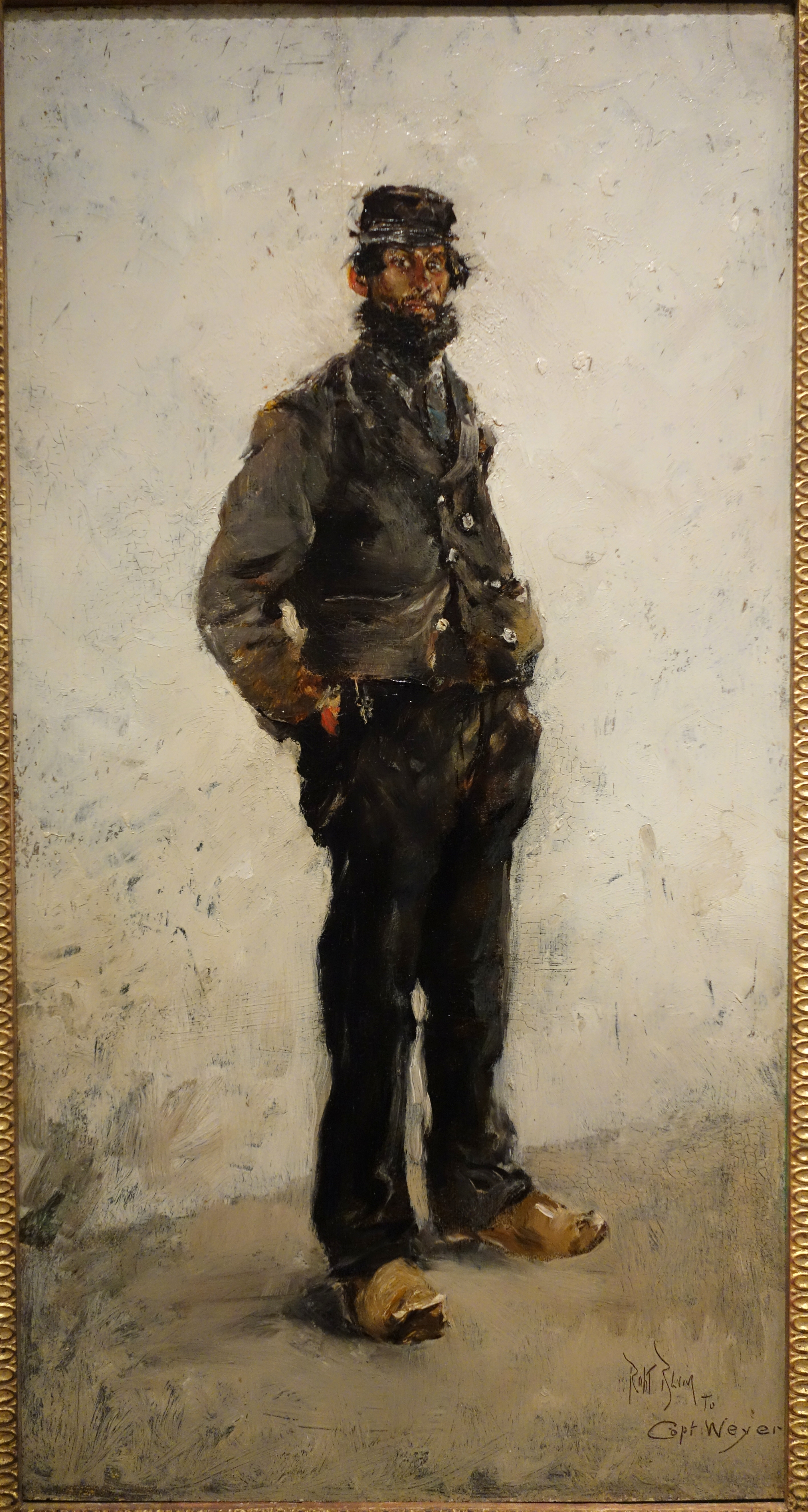 Exhibit in the New Britain Museum of American Art, New Britain, Connecticut, USA. This artwork is in the public domain because the artist died more than 70 years ago. The museum permitted photographs of this exhibit without restriction.